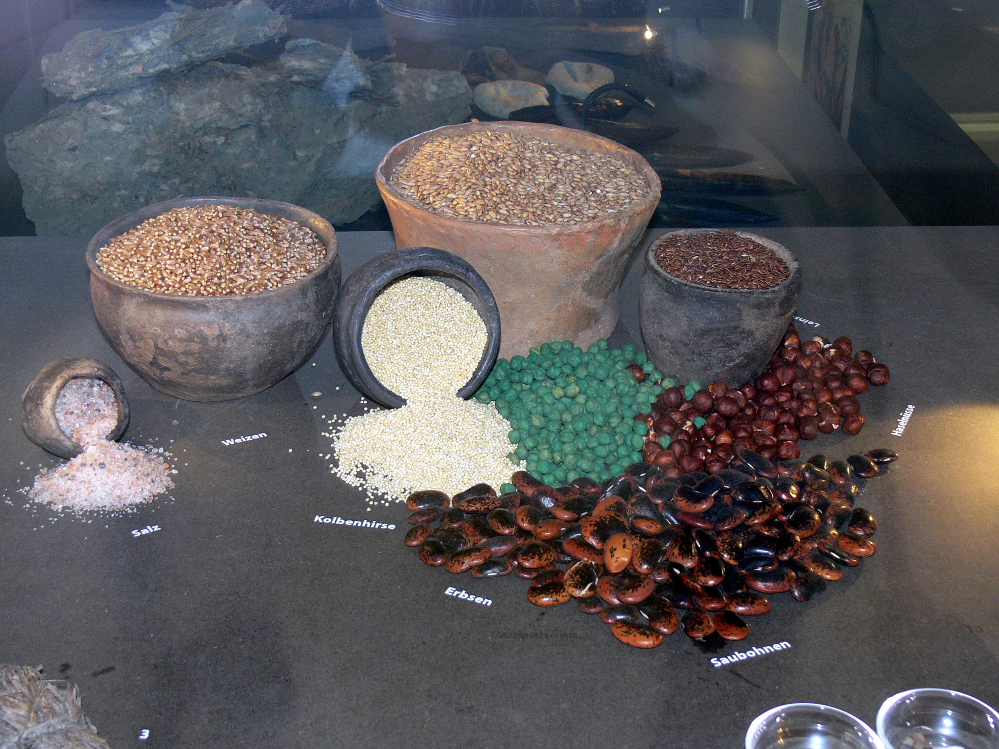 Celtic museum in Hallein ( Salzburg ). Food of the Celtic salt miners.